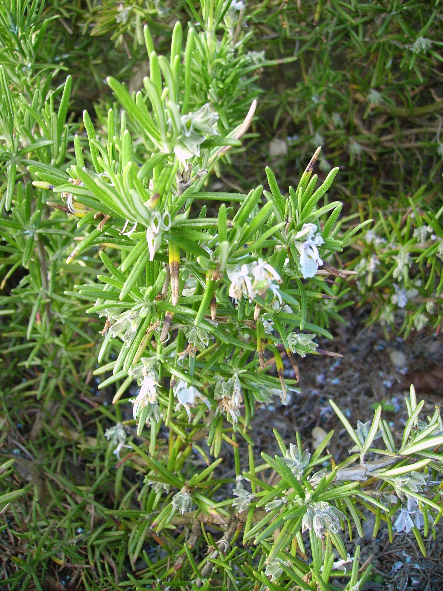 Rosemary (Rosmarinus officinalis)